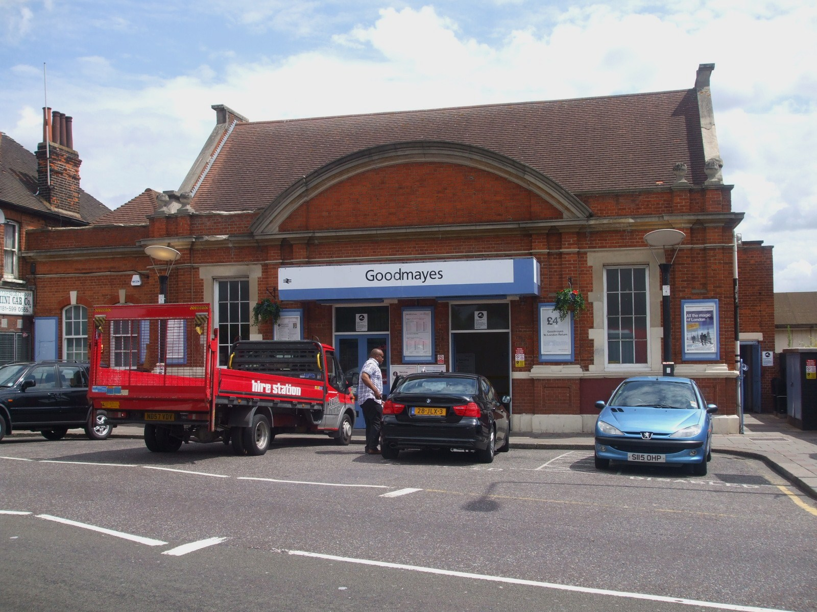 Goodmayes station building, first opened in 1901